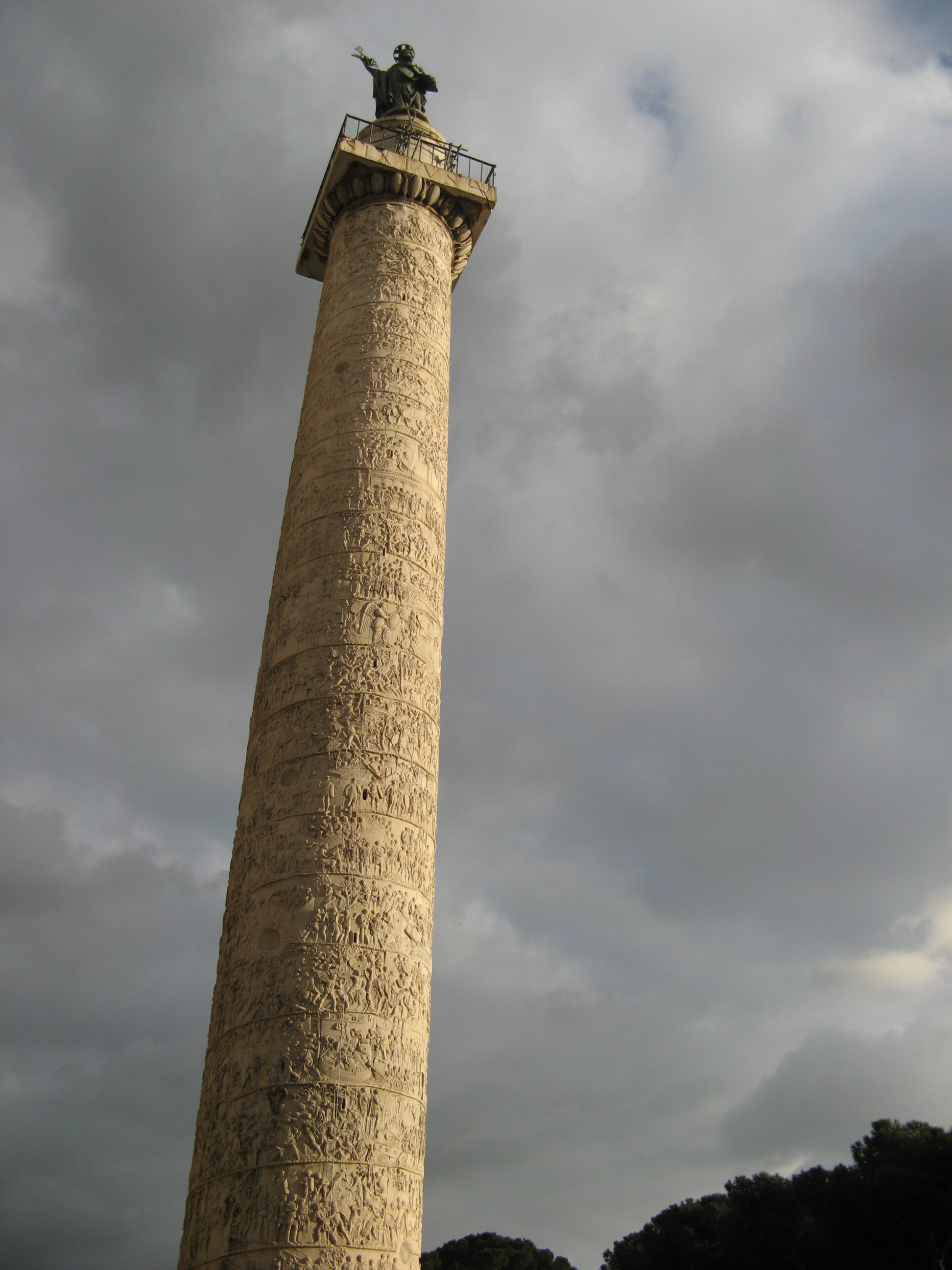 Trajan's Column in Rome, Italy with dark clouds in the background.